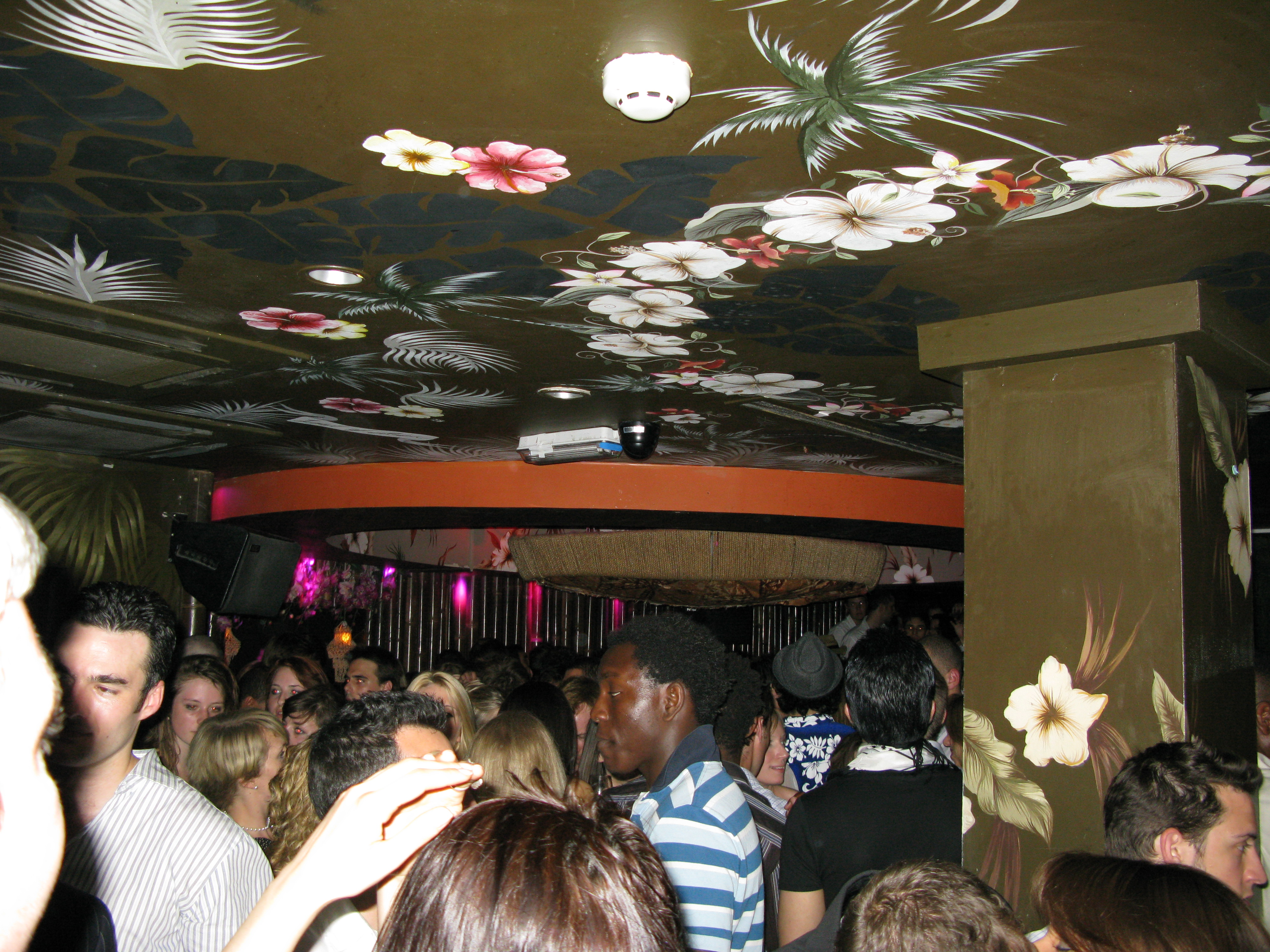 This is a picture of the inside of Mahiki, the London nightclub.